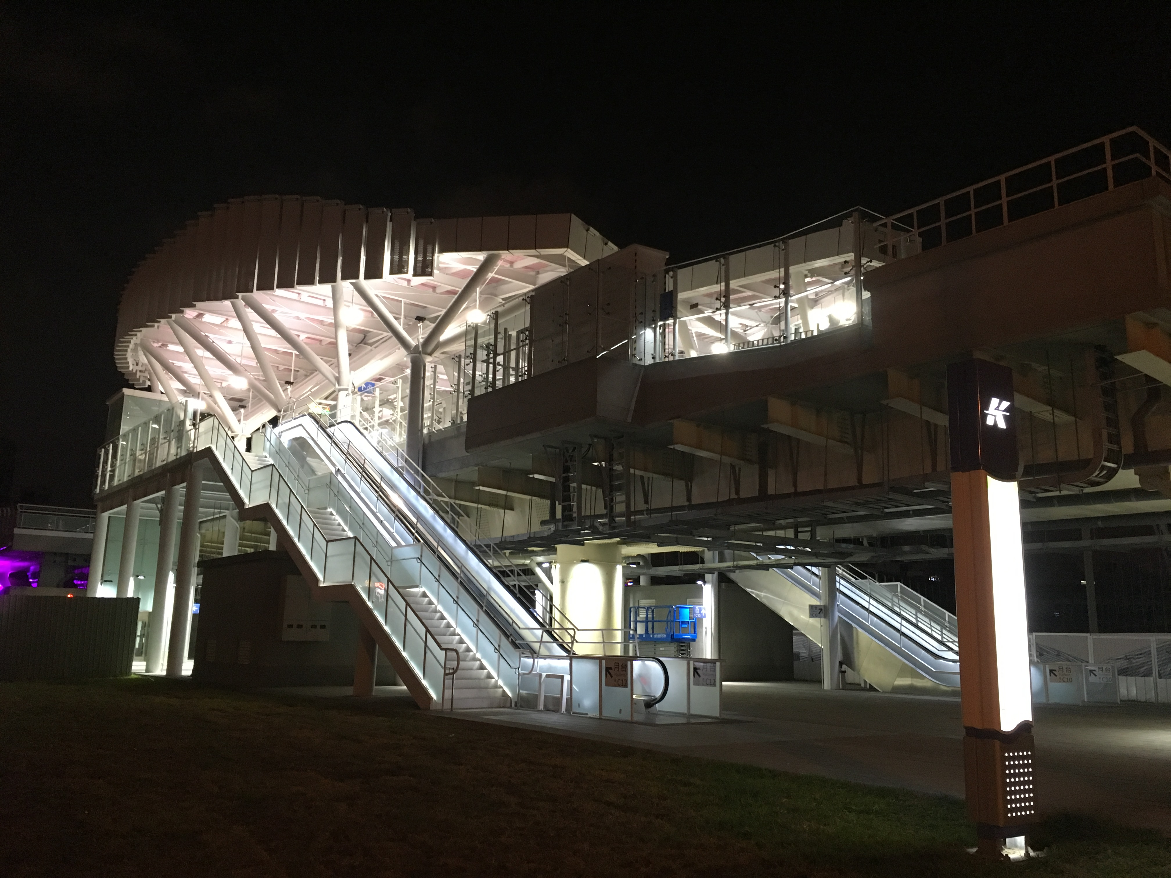 Love Pier Station of KLRT at night.